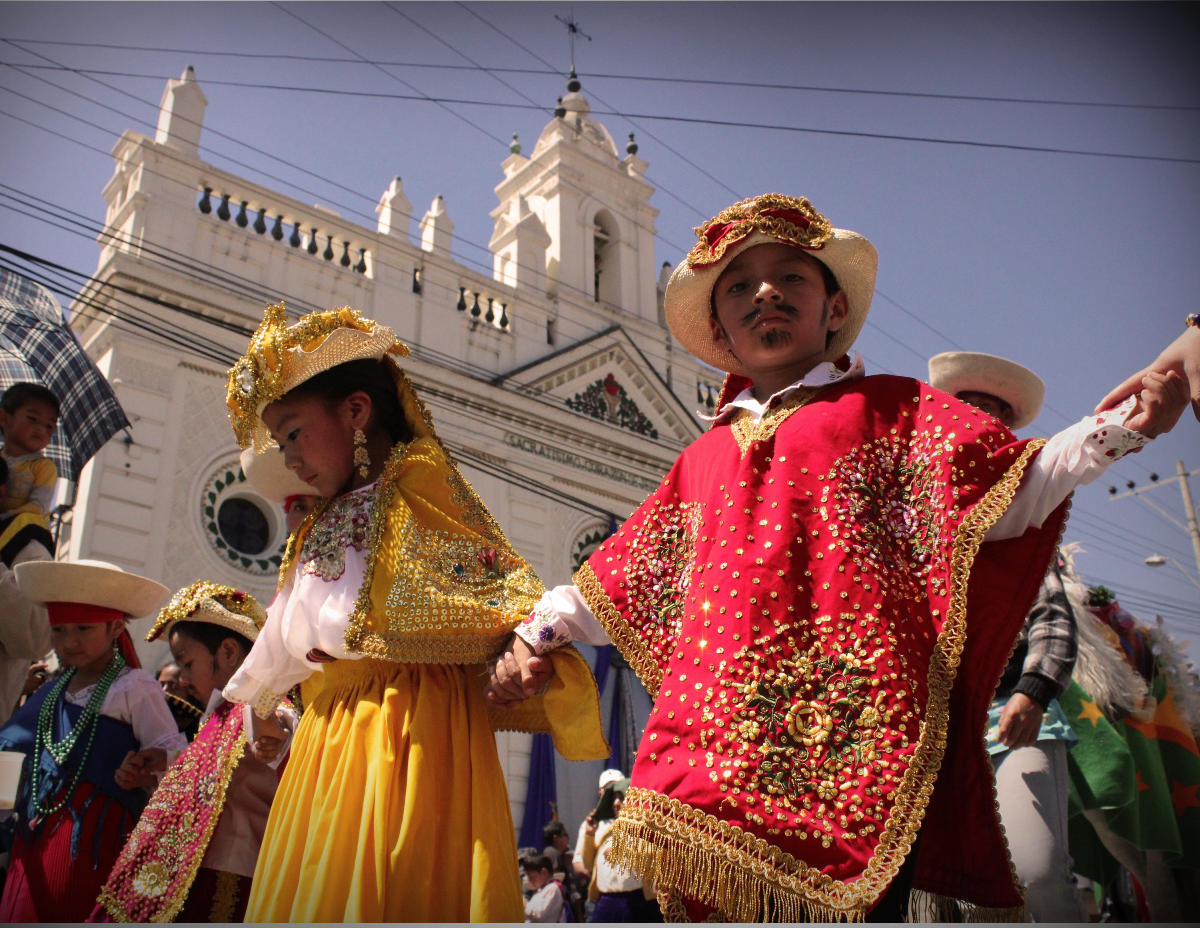 Children dressed as mayorales pass by the church of Corazón de Jesús during the 2013 Pase del Niño Viajero in Cuenca, Ecuador.